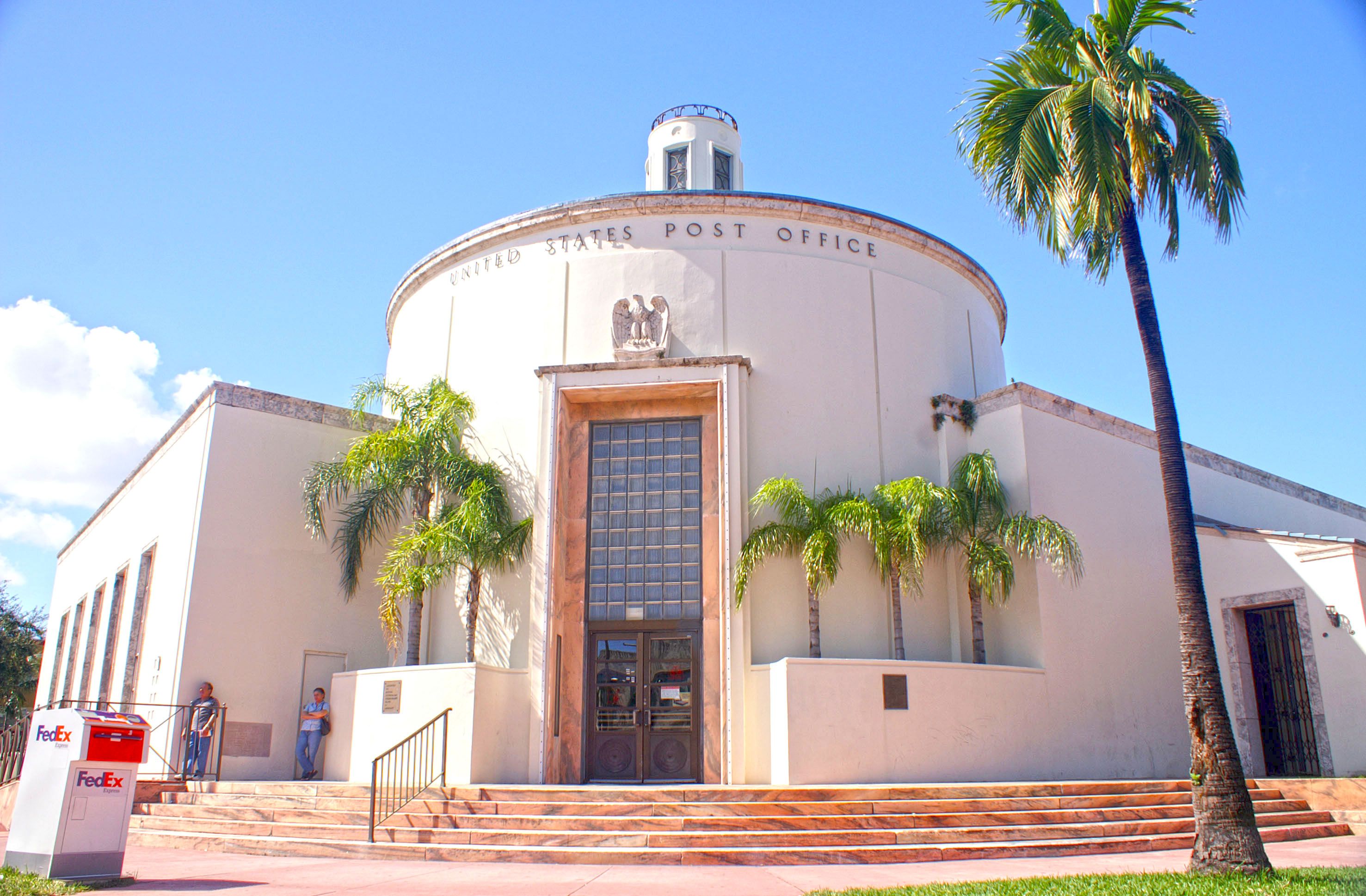 Miami Beach Post Office 33139